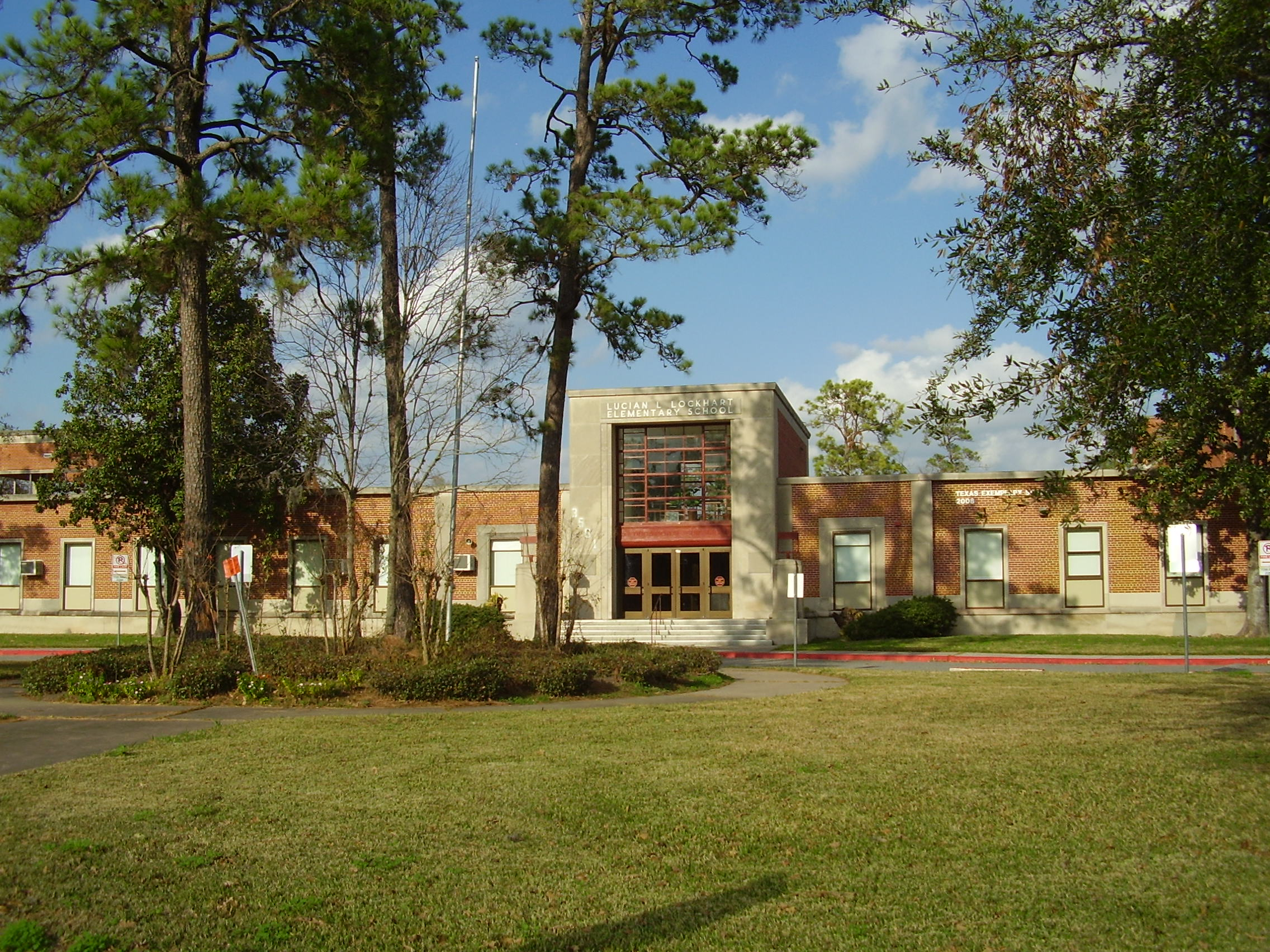 Lucian L. Lockhart Elementary School